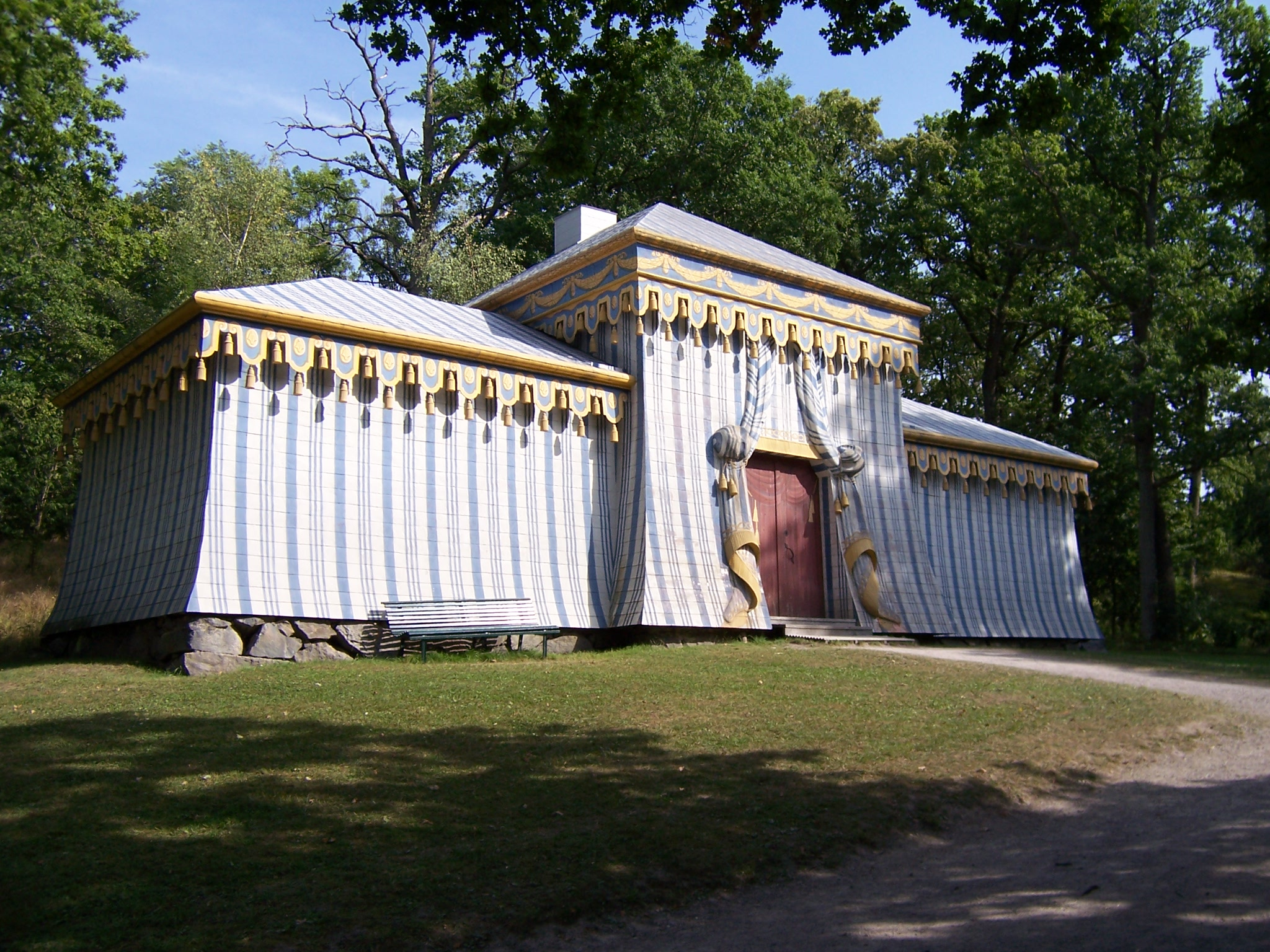 The Guard's Tent, wooden building for the guards of the Chinese Pavillions at Drottningholm Palace (Sweden) own work, all rights released